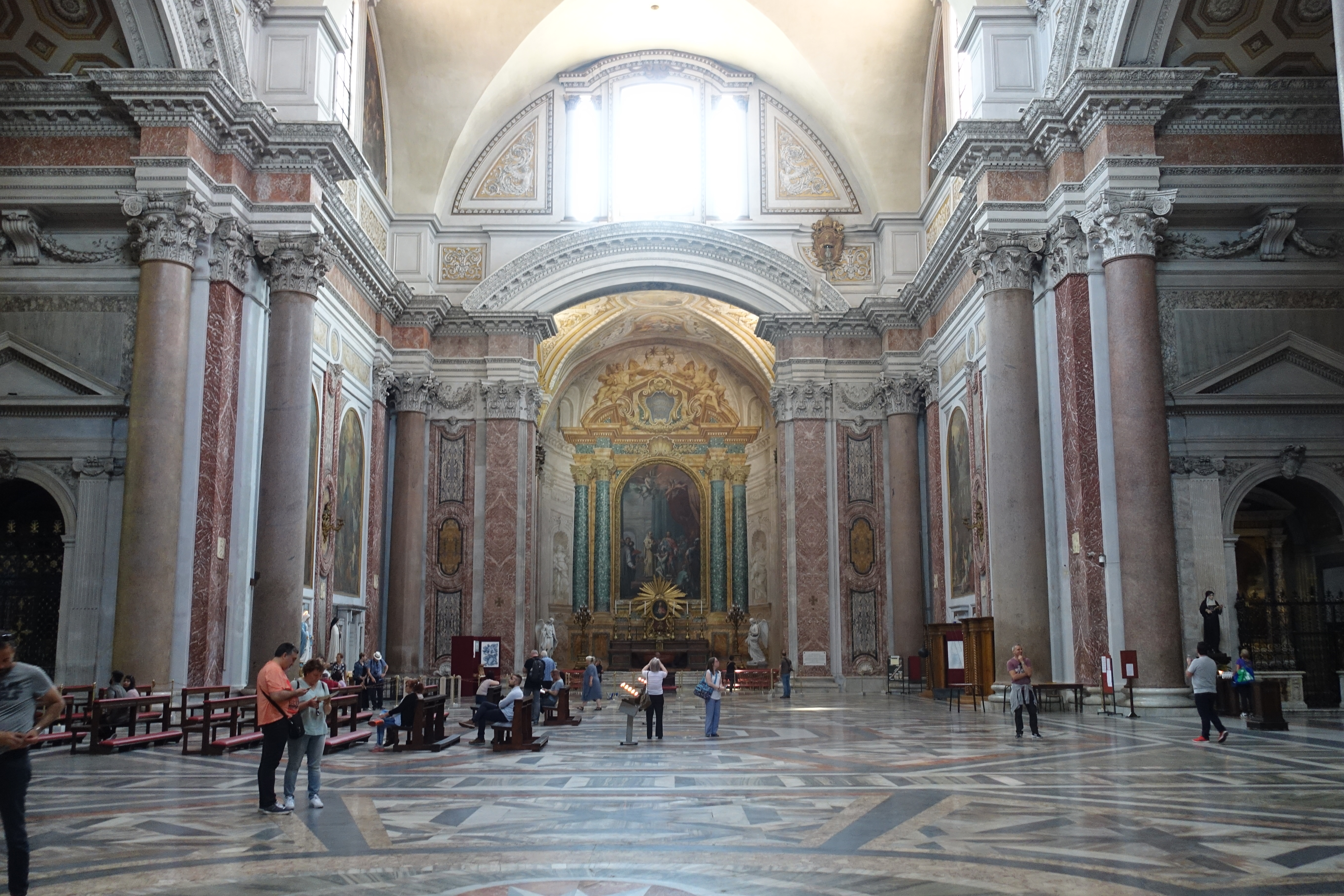 Santa Maria Degli Angeli church's interior. Picture is taken facing northeast towards one of its altars facing northward from the entrance hall. Light derives from the bright rays brought down by daylight; hence the striking brightness from the window above, shining down to the interior.